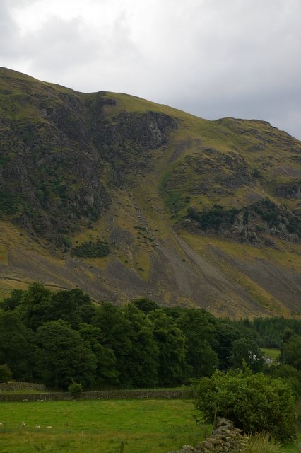 Fisher's Wife's Rake. Fast Way up to Clough Head